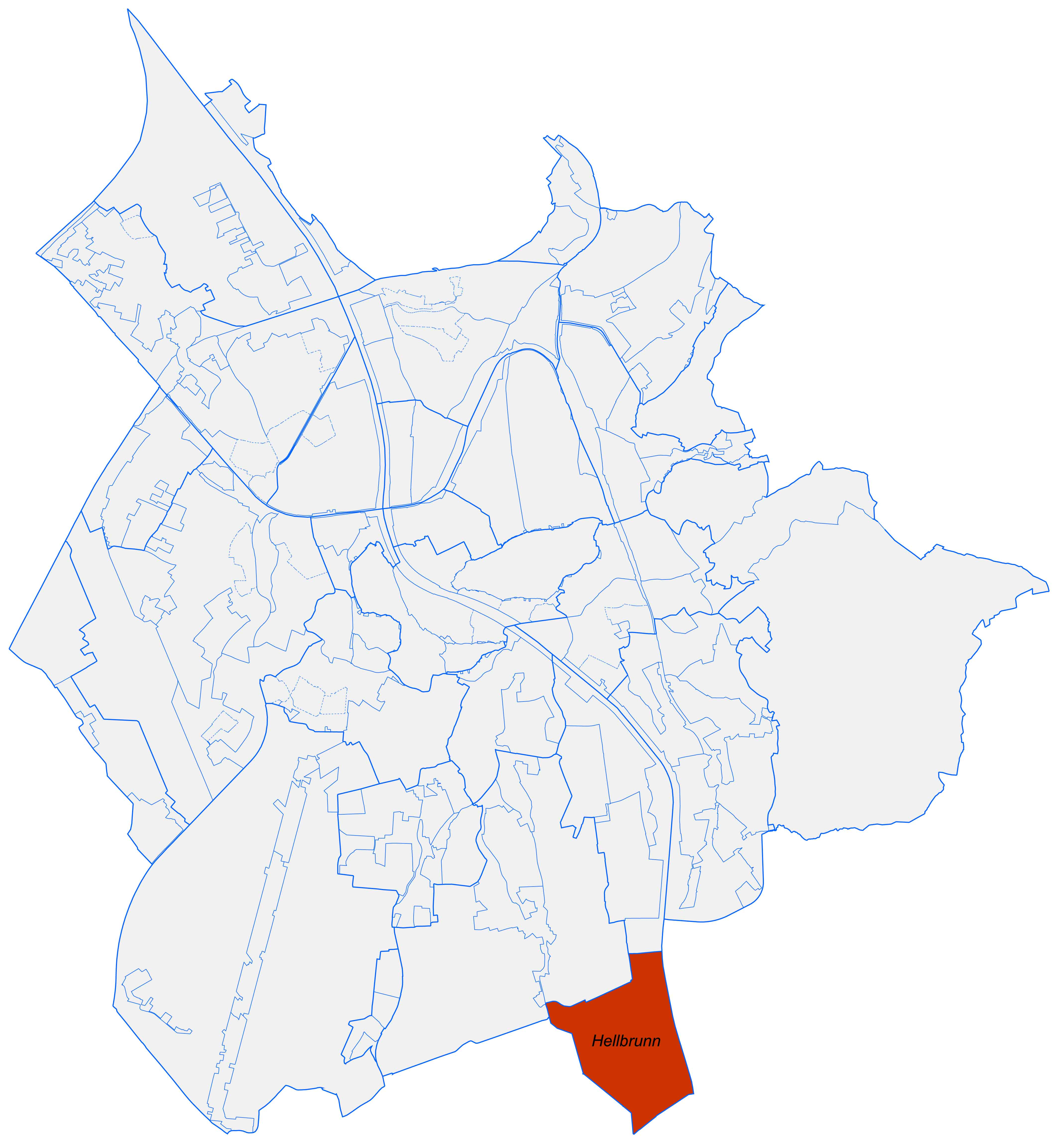 a quarter of the town of Salzburg: Hellbrunn